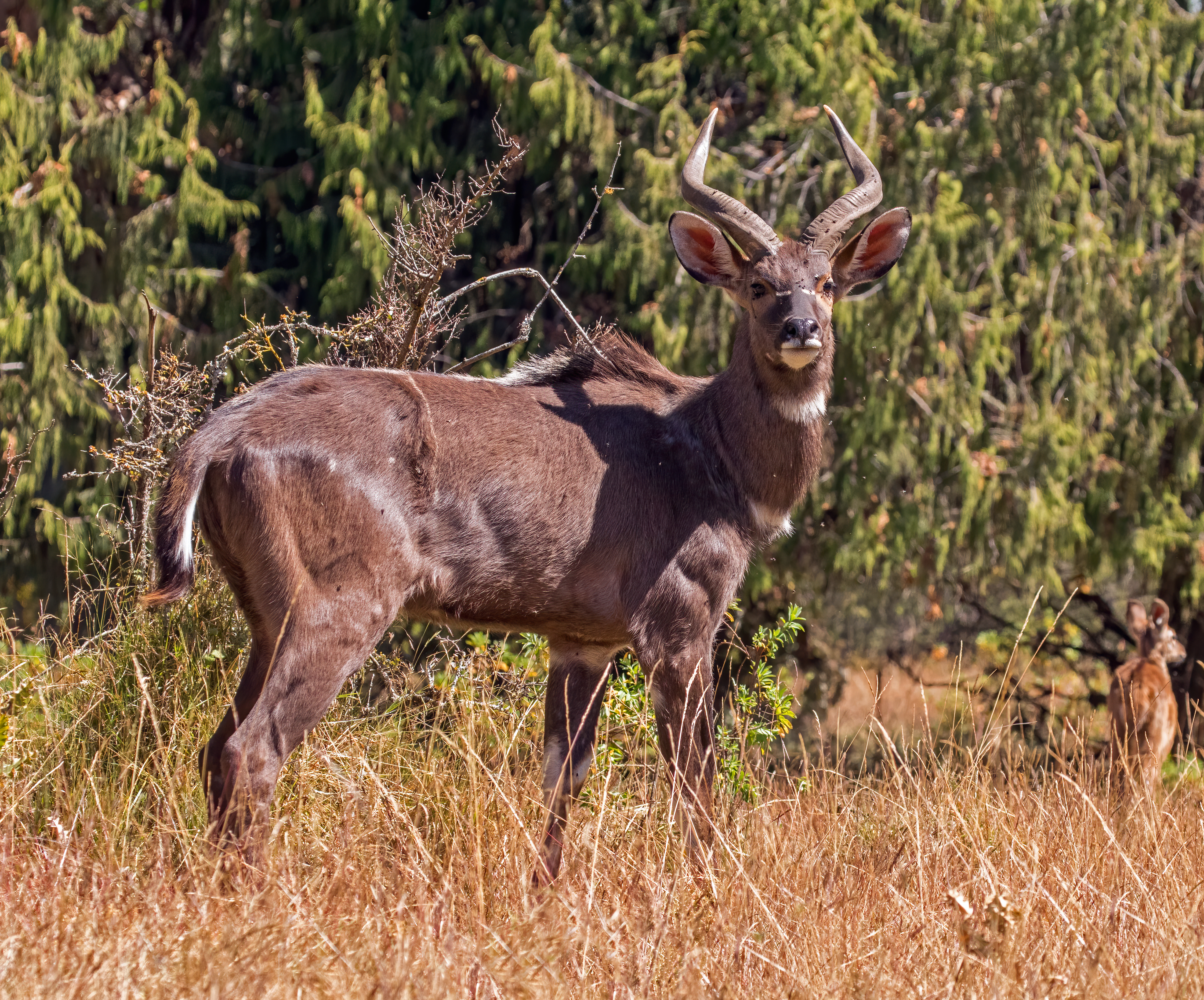 Mountain nyala (Tragelaphus buxtoni) male, Bale Mountains National Park, Ethiopia